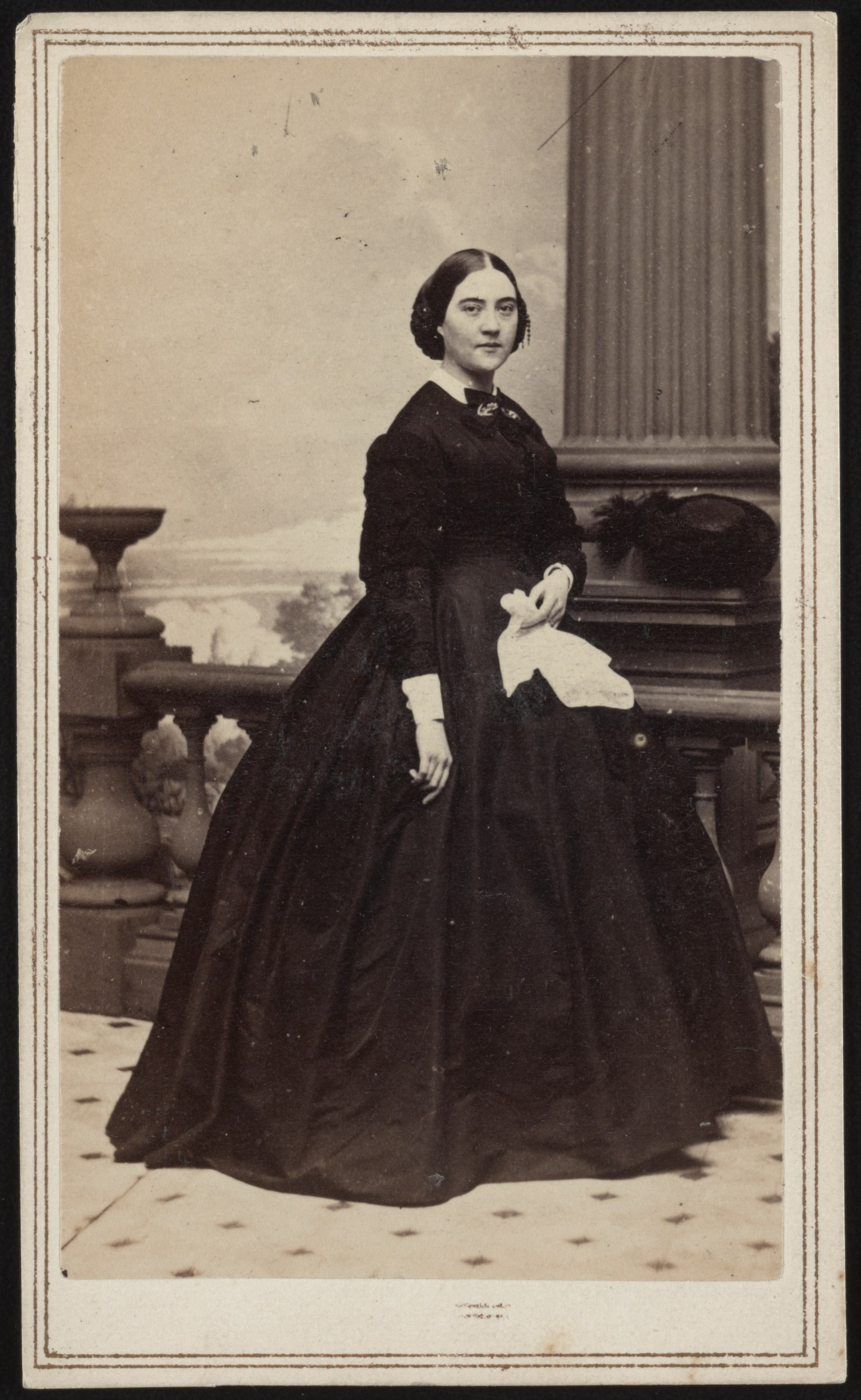 Title: Adele Douglas, widow of Illinois senator Stephen A. Douglas, in mourning dress with handkerchief in front of painted backdrop] / C.D. Fredricks & Co, 587 Broadway, New York ; 108 Calle de Habana, Habana ; 31 Passage du Havre, Paris Abstract/medium: 1 photograph : albumen print on card mount ; mount 11 x 6 cm (carte de visite format)